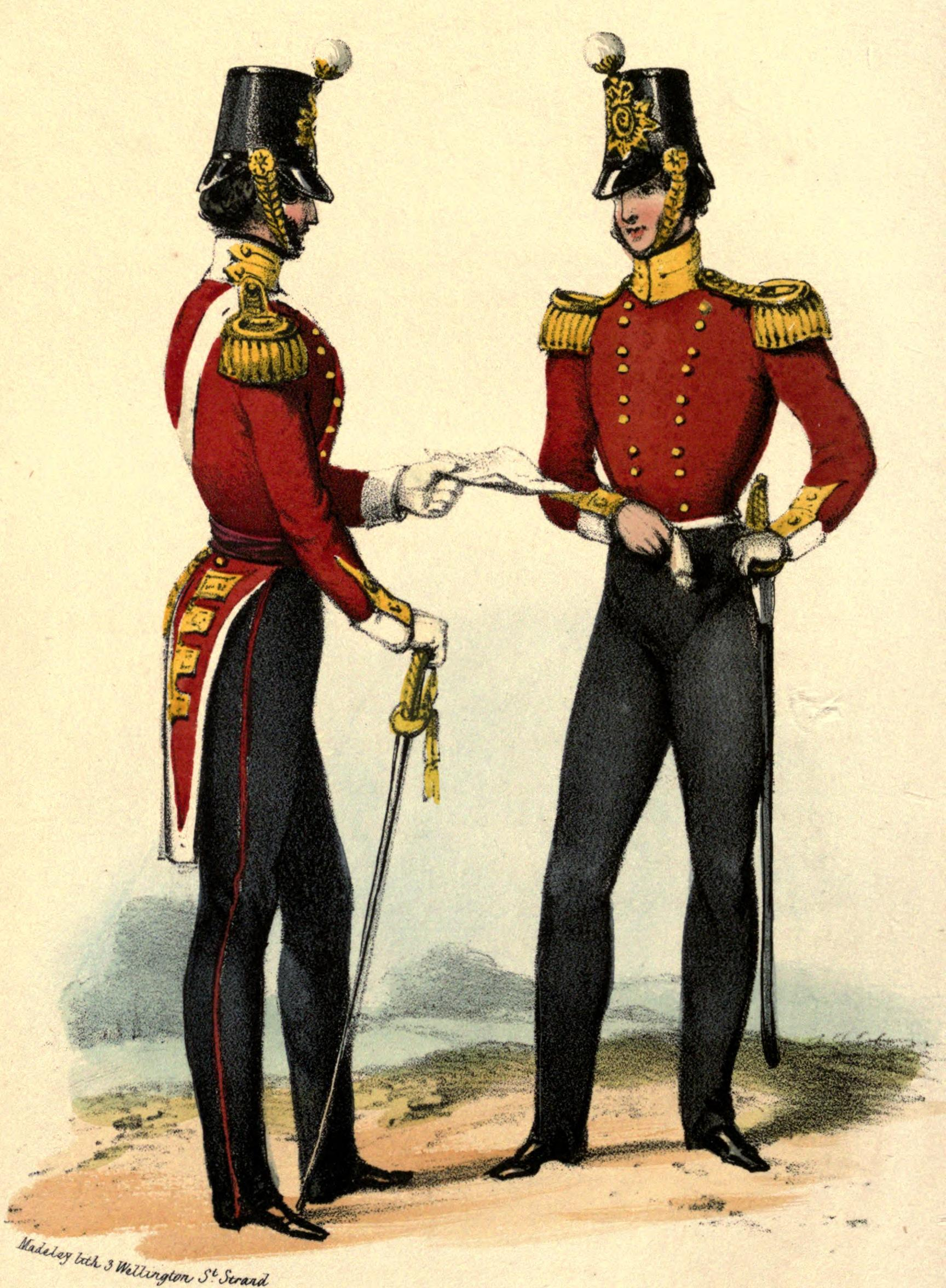 Uniform of the 17th Foot.